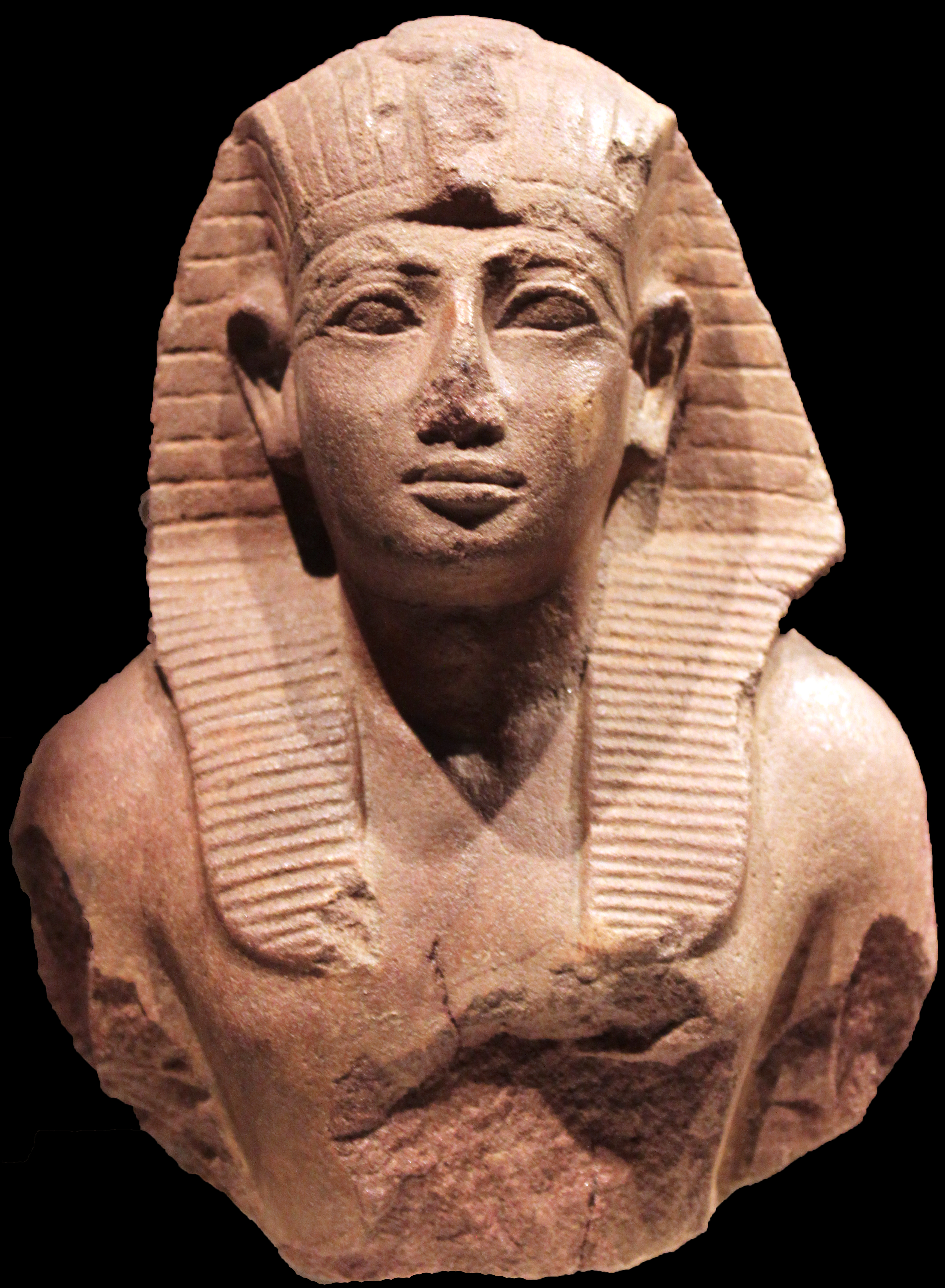 Upper part of a statue of the king Amenotep II; 18th Dynasty (ca. 1425 BC); Neues Museum Berlin, Germany